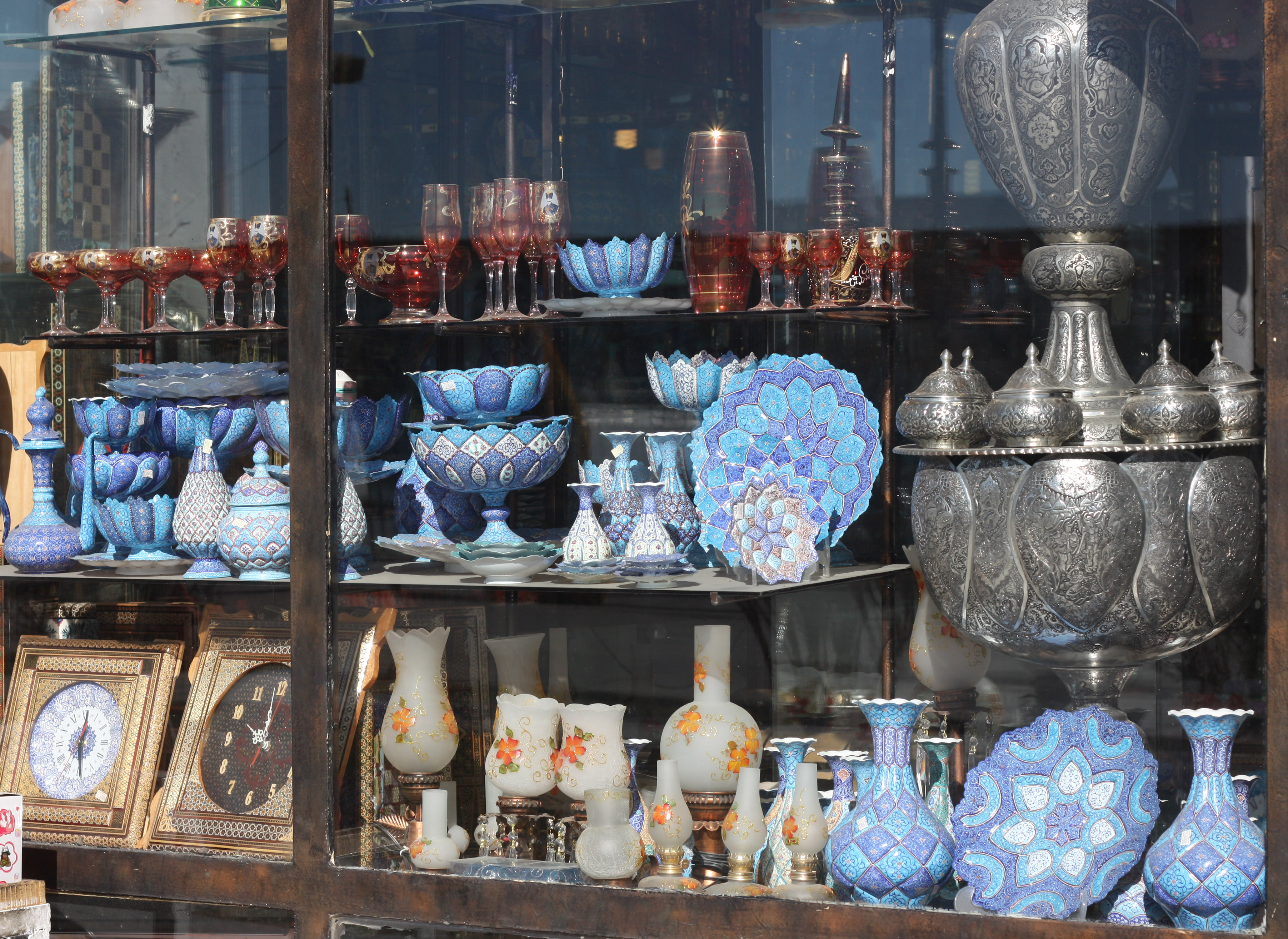 handicrafts in Naqsh-e Jahan Square